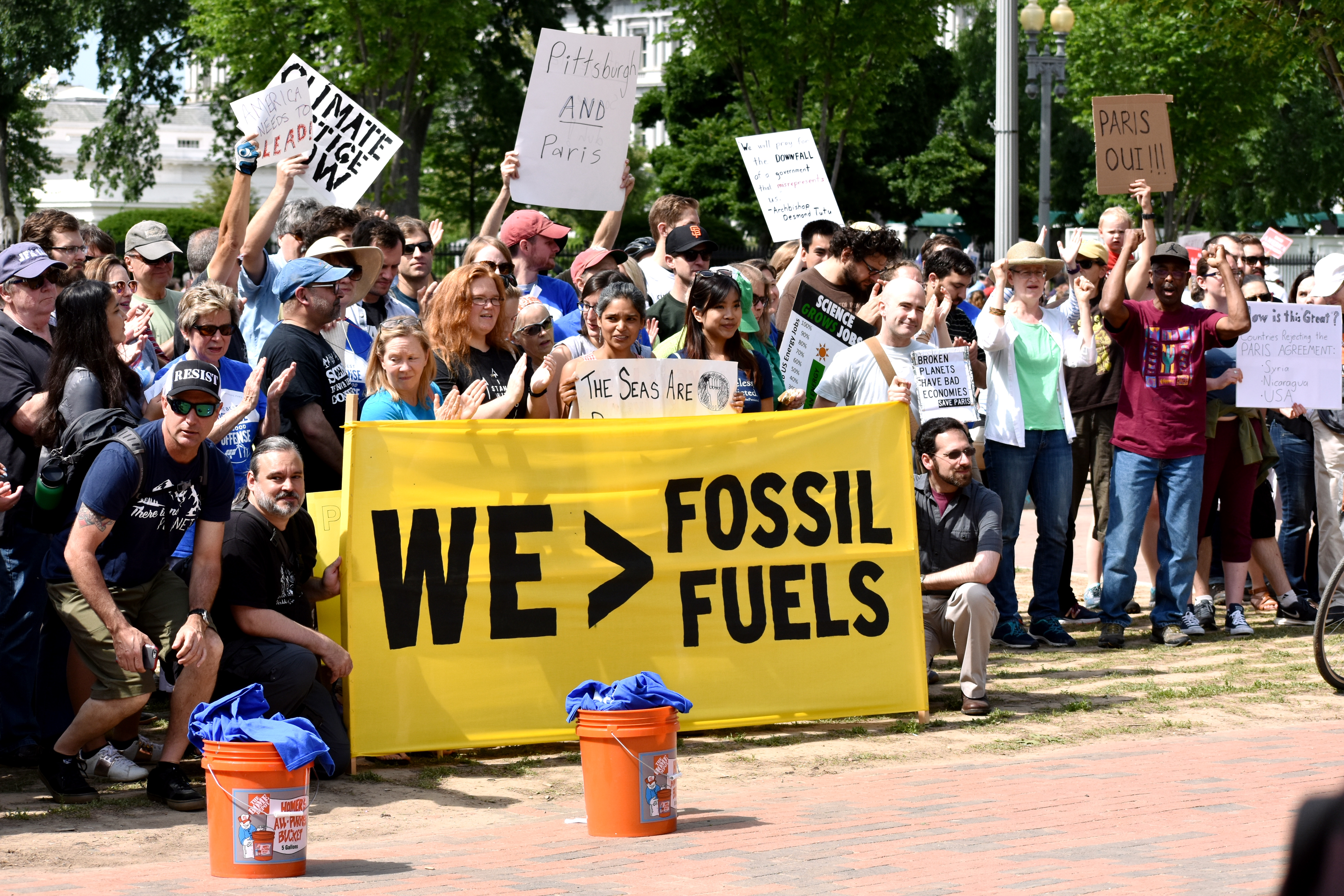 Counter Protest at Trump Event